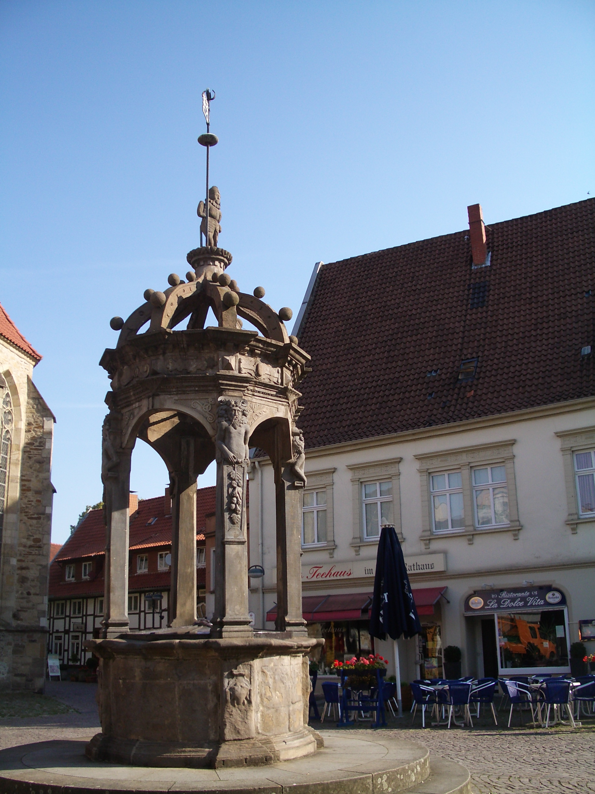 Fountain in town of Herford, District of Herford, North Rhine-Westphalia, Germany.